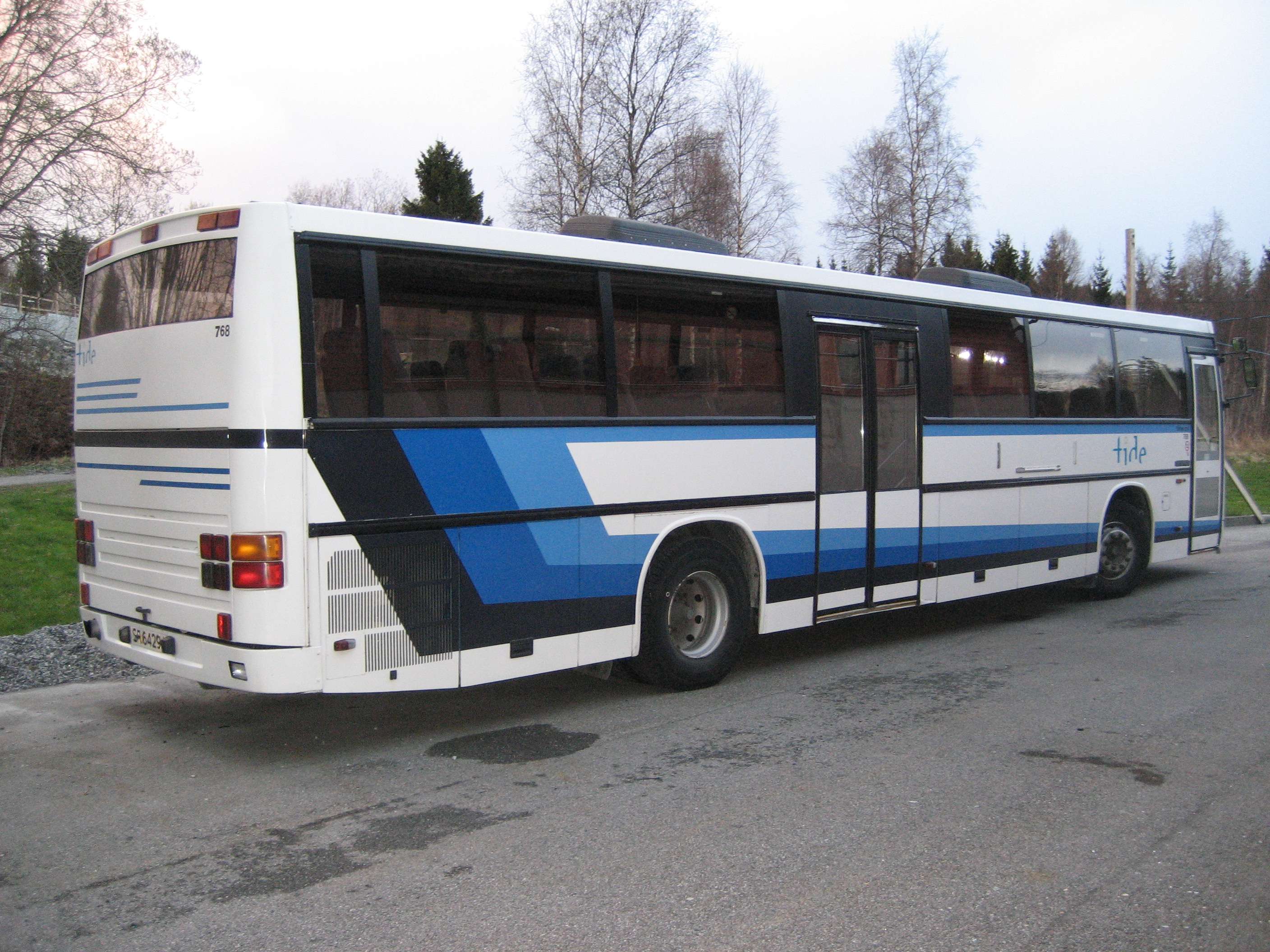 An old (but still used) Tide bus, still wearing its former black/blue/lighblue BNR stripes.